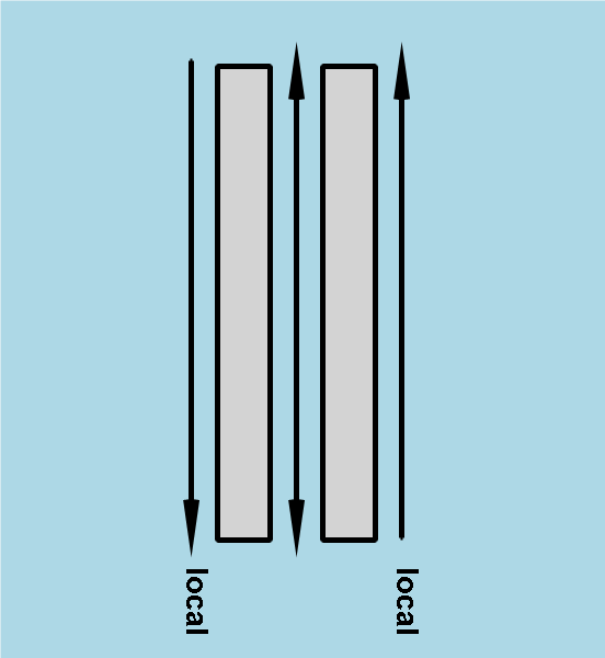 NYC Subway station layout vc typical island 2 plus 1 tracks